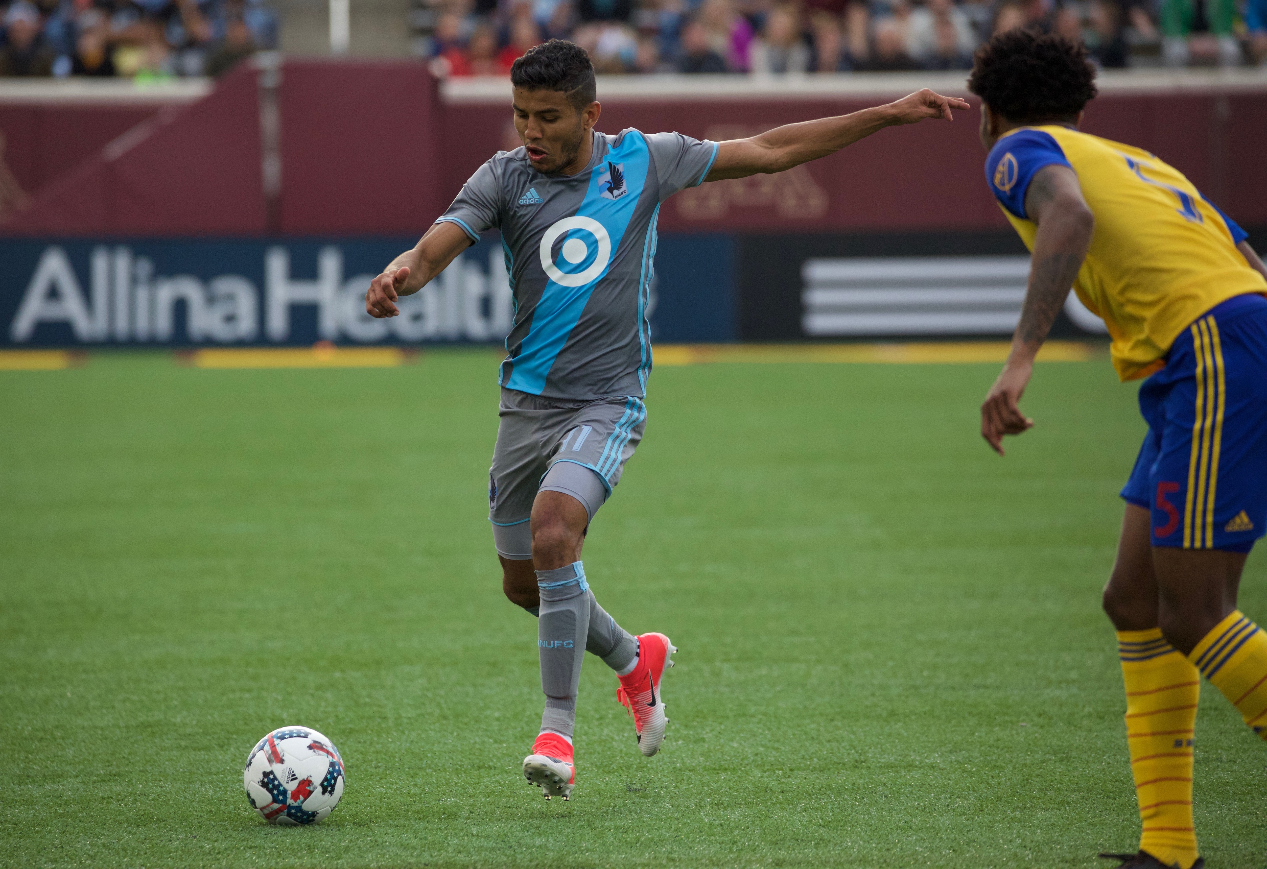 Johan Venegas - Costa Rica - Ticos - Soccer - MN United - MLS